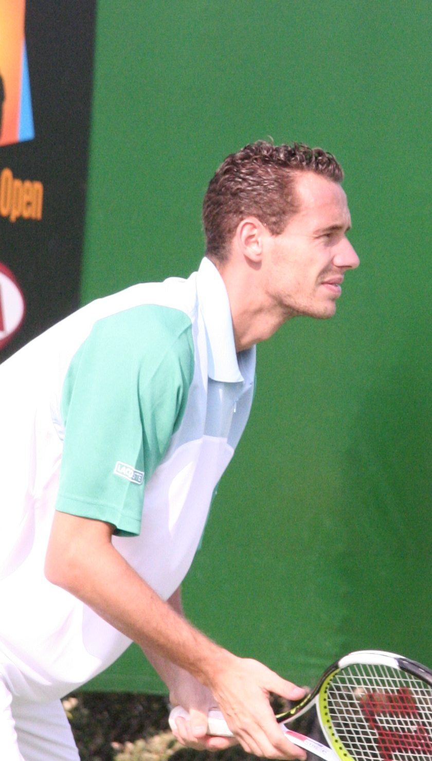 Michael Llodra at their first-round match of the 2007 Australian Open.